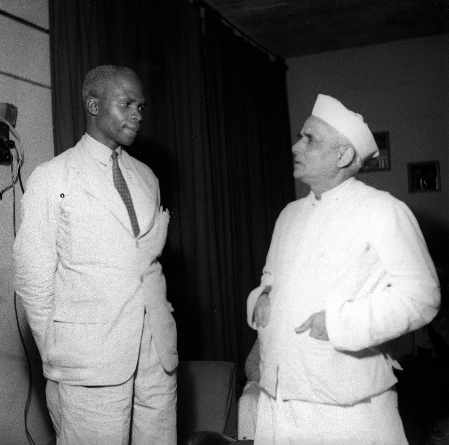 Godwin Moikusita Lewanika, General President of the Northern Rhodesia African National Congress and then on a world study tour and passing through India, met R. R. Diwakar, Minister of State for Information and Broadcasting, Government of India, in Bombay.